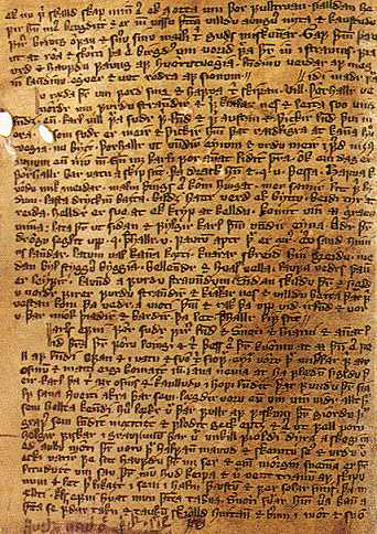 A sheet of the Saga of Erik the Red - XIII Century